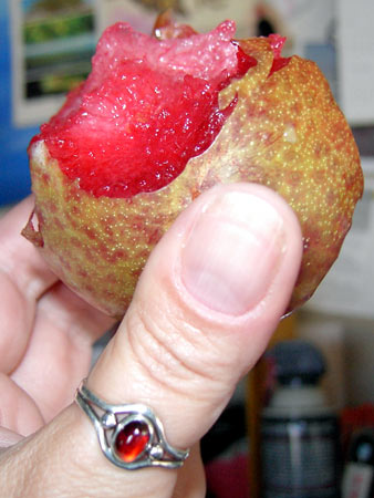 Pluot by Gwen Harlow